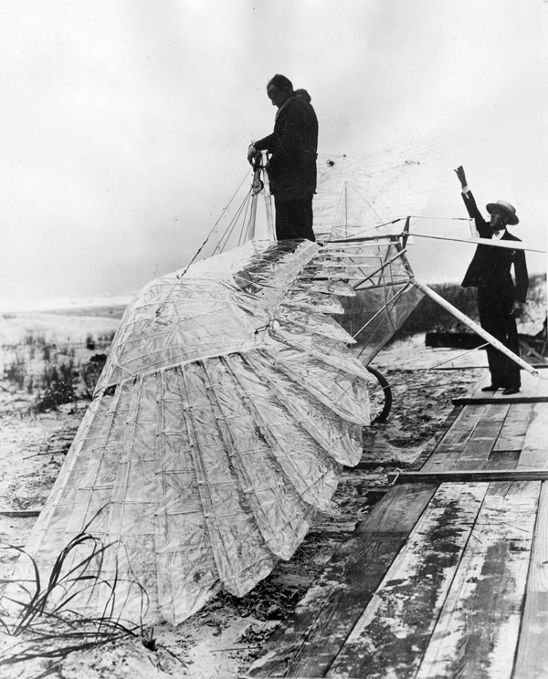 Local call number: PR00458 Corporate author: Underwood & Underwood. Title: [Ornithopter and creator George R. White at St. Augustine] Physical descrip: 1 photograph: b&w; 10 x 8 in. General note: George R. White of Stoney Brook, Long Island, New York, former aviator and flying instructor during the war, on the beach at St. Augustine where he attempted to make the first successful bird-like flight in history. White is in his foot-propelled, wing-flapping, motorless ornithopter, which weighs 118 pounds, is 8 feet in length, and has a wing span of 29.5 feet. The frame was made of chrome molybdenum covered with a non-inflammable celluloid fabric. It crashed on the test flight, but it was later improved. Date captured: Photographed September 21, 1927. Repository: State Library and Archives of Florida, 500 S. Bronough St., Tallahassee, FL 32399-0250 USA. Contact: 850.245.6700. Persistent URL